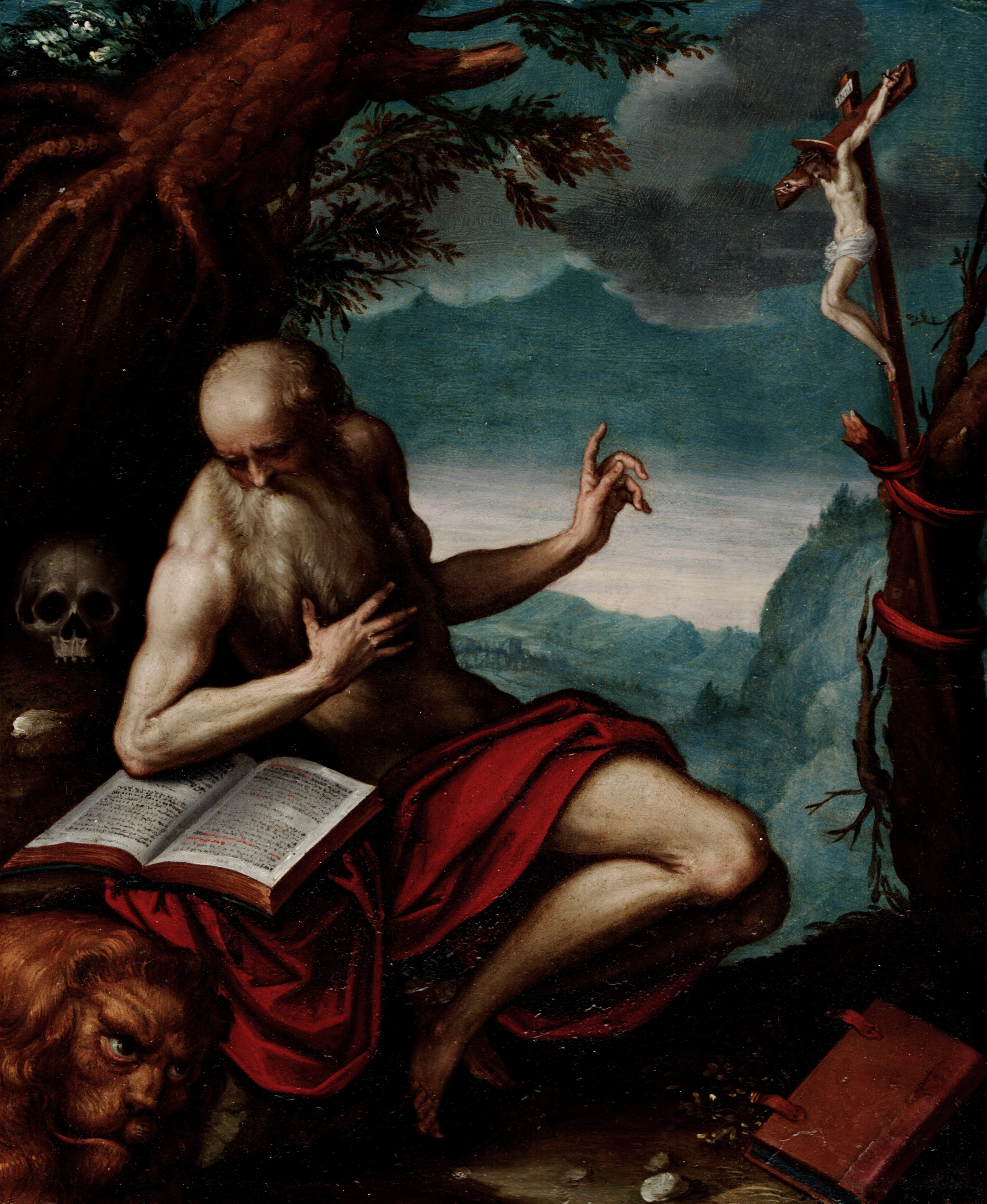 High res scanned image of the Francesco St Jerome, a work of art on copper from the early 17th-century.